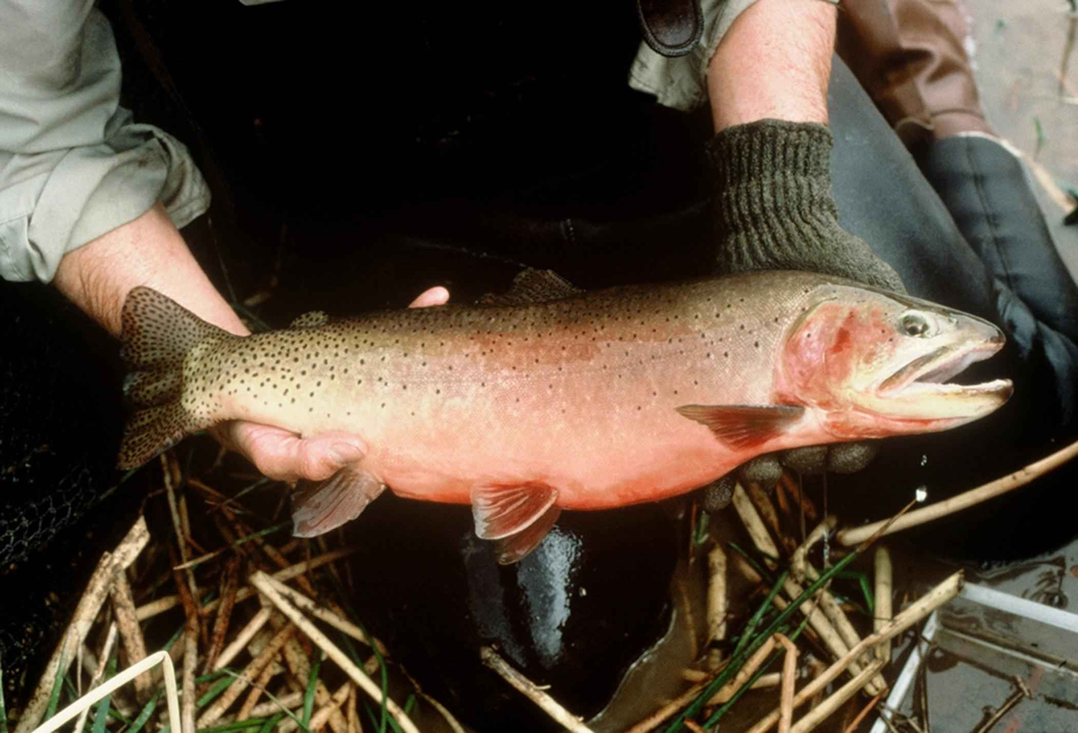 Image title: Adult greenback cutthroat trout fish oncorhynchus clarki stomias Image from Public domain images website